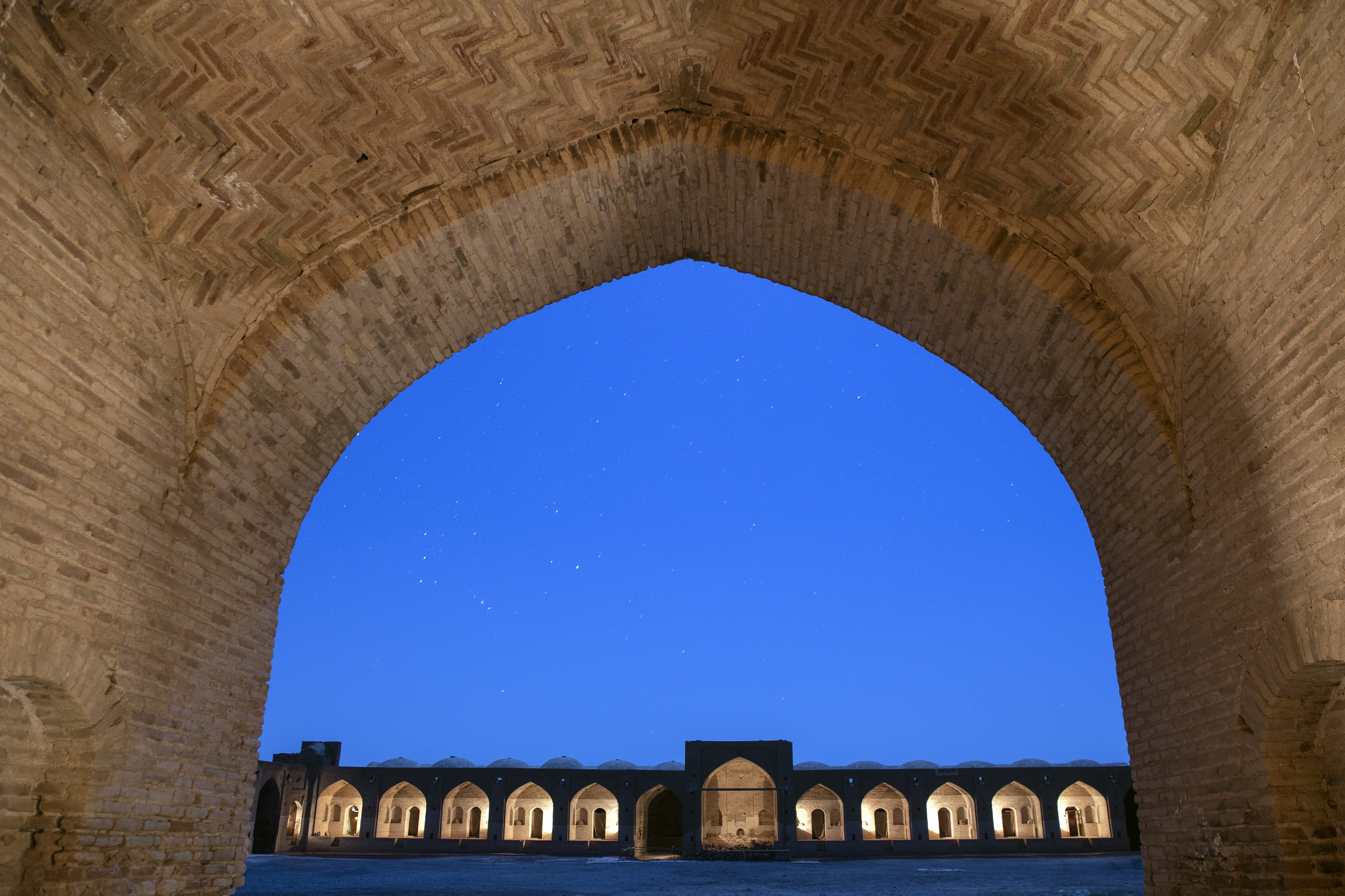 Deir-e Gachin Caravansarai is one of the greatest caravansarais of Iran which is located in the center of Kavir National Park Its unique qualities is the reason it is called “Mother of Iranian Caravansarais”. It is located in the Central District of Qom County, 80 kilometers north-east of Qom (60 kilometers into Garmsar Freeway) and 35 kilometers south-west of Varamin. This monument was registered in Iran's National Heritage List on September 23, 2003. The structure of this caravanserai belongs to Sasanian era, and restorations took place in Seljuk, Safavid and Qajar eras. Its current form belongs to Safavid era. This caravanserai is situated on the ancient rout from Ray to Isfahan.= Photo By: Mostafa Meraji = Srpskohrvatski / српскохрватски: Dair-e Gačin je veliki karavan-saraj u Iranu smješten uz historijski put između Raja i Isfahana odnosno uz suvremenu cestu između Garmsara i Koma, oko 60 km južno od glavnog grada Teherana.